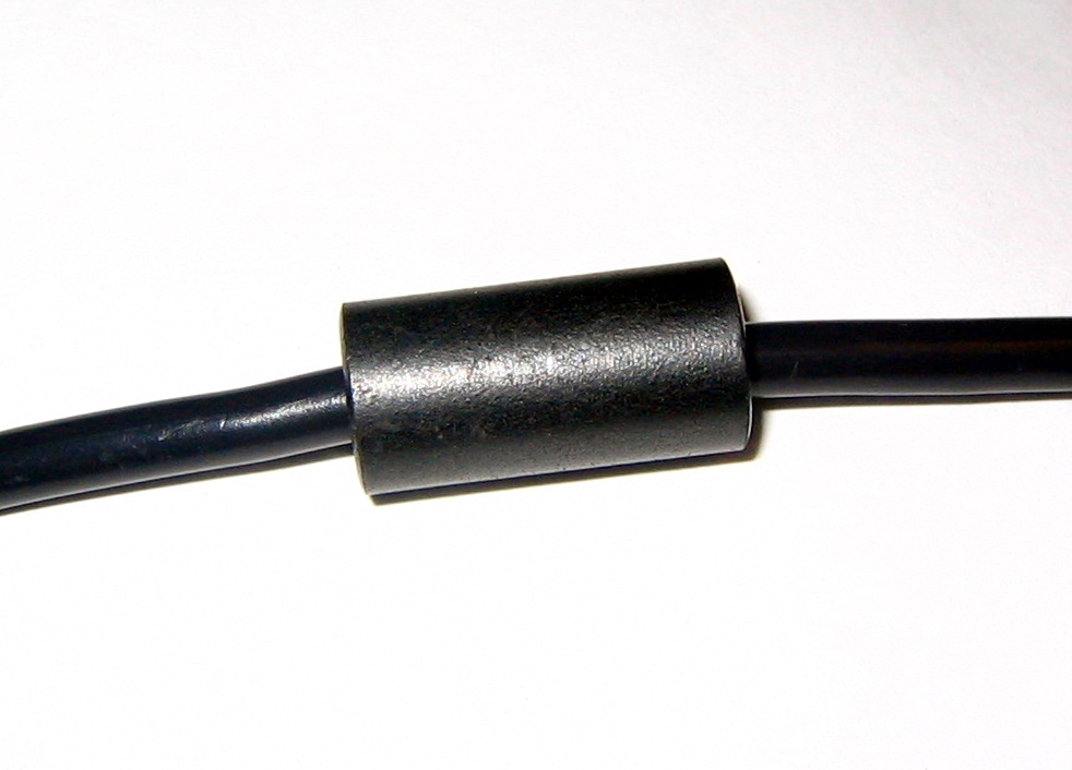 A ferrite bead with the plastic shell removed, put back on the wire (from a laptop power cord).